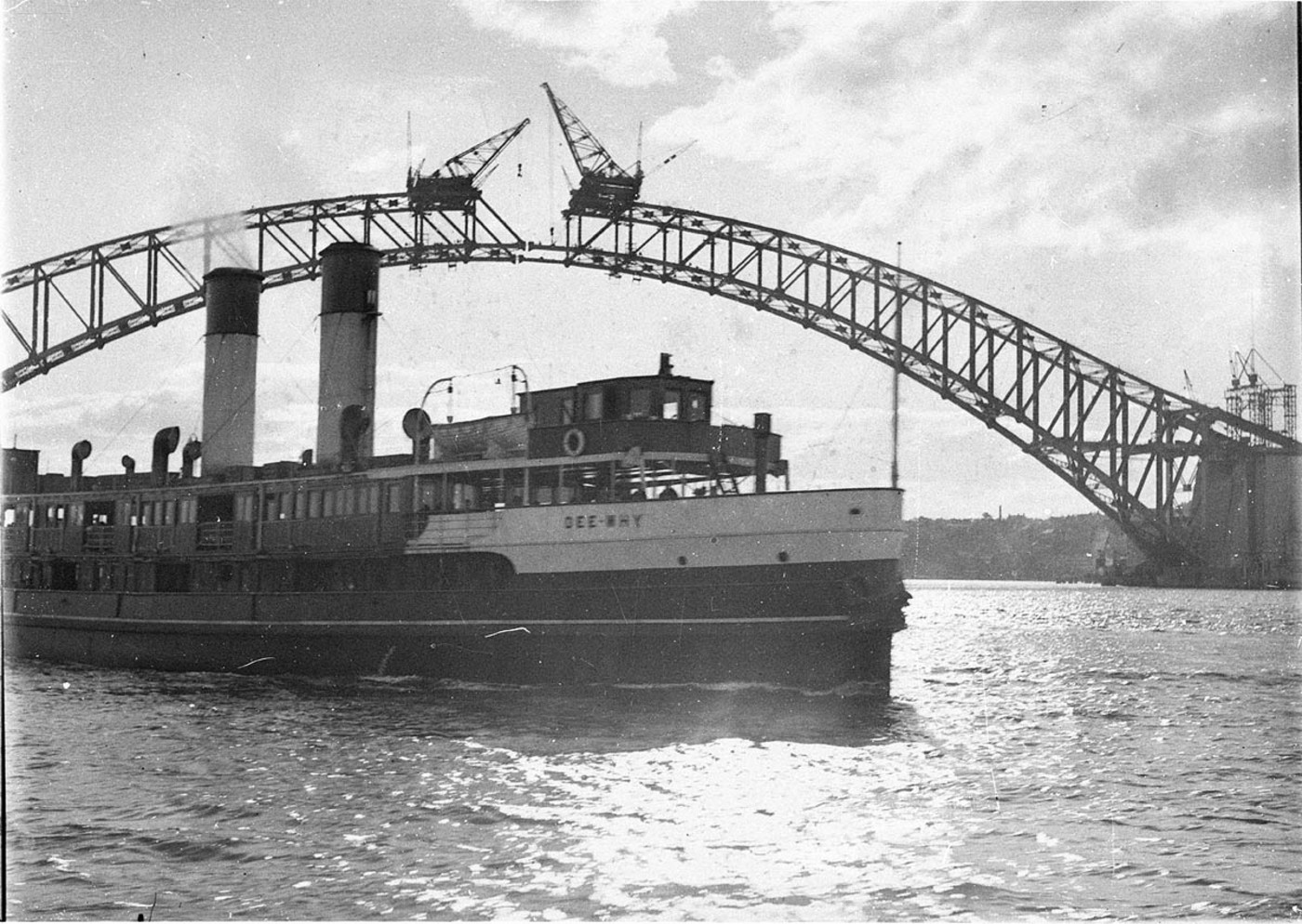 The Dee Why ferry passing the uncompleted Sydney Harbour Bridge Hood, Ted. Manly Ferry, SS "Dee Why", Passes in Foreground of the Bridge; a Member of the Lower Chord Being Lifted into Place, 1930..